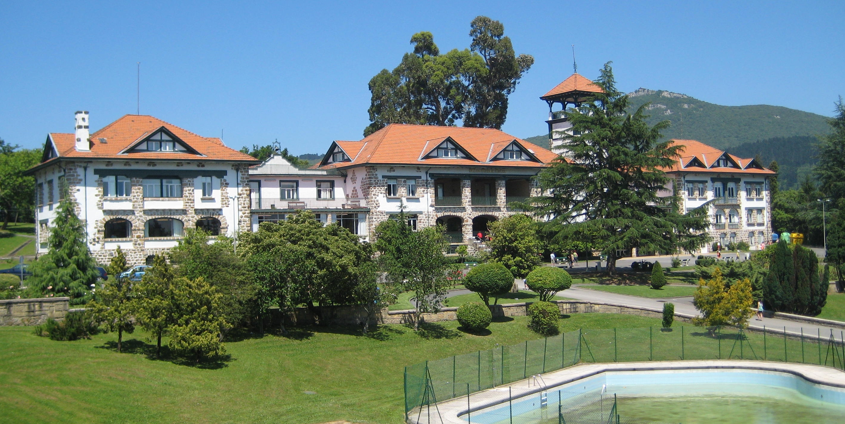 Premises of the residence for children of Caja de Ahorros Municipal de Bilbao (currently merged into Bilbao Bizkaia Kutxa) in Busturia. The building was designed by Ricardo de Bastida.